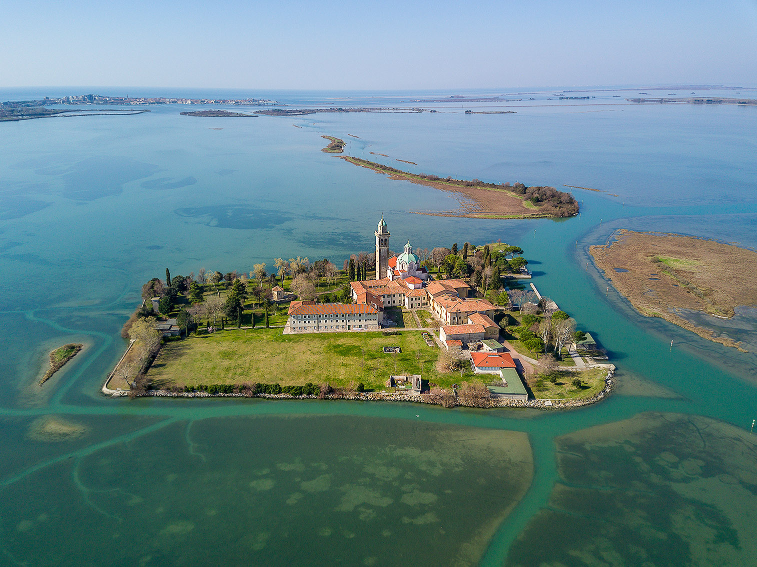 Barbana